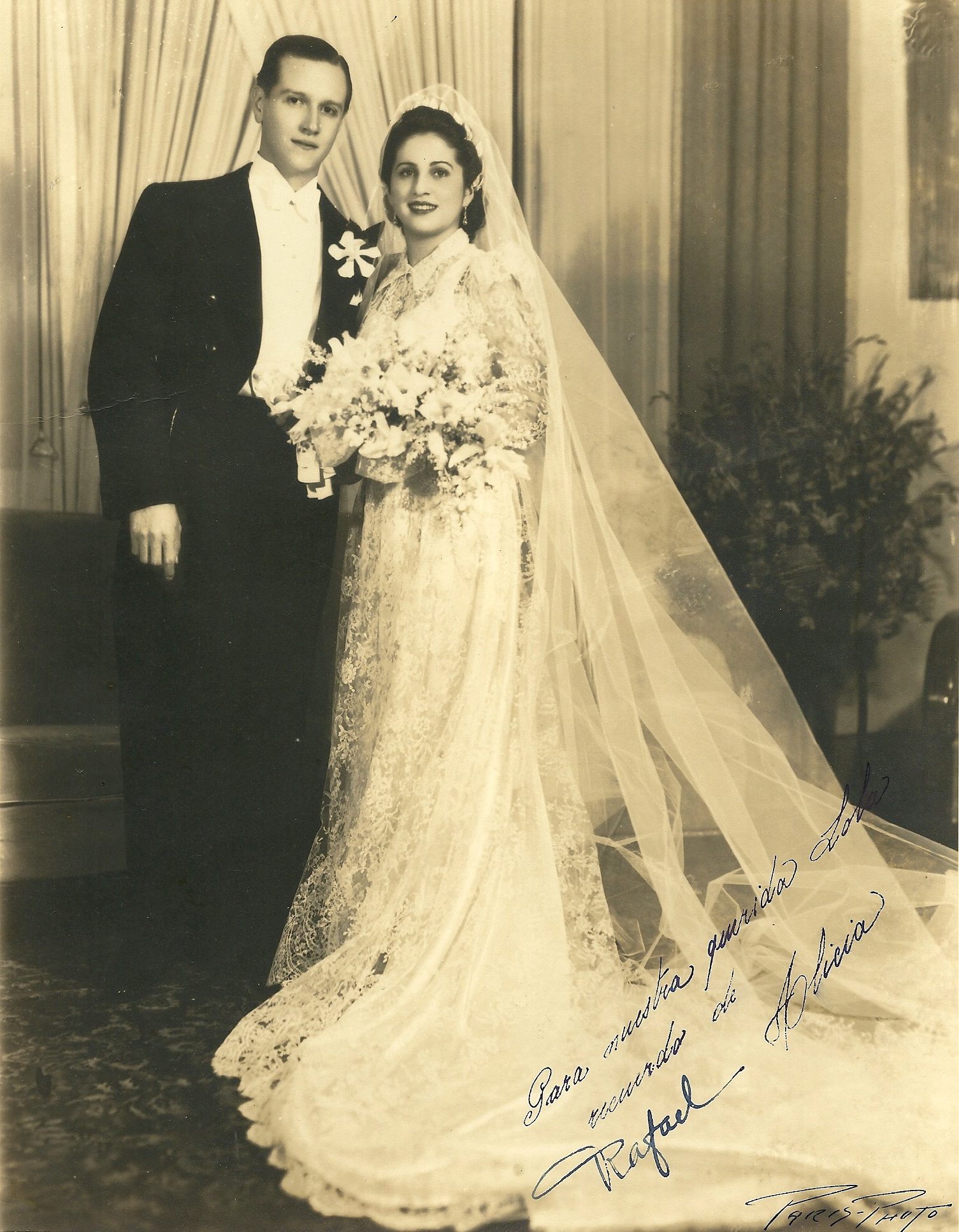 Matrimonio de Rafael Caldera y Alicia Pietri en la basílica de Santa Teresa, Caracas.